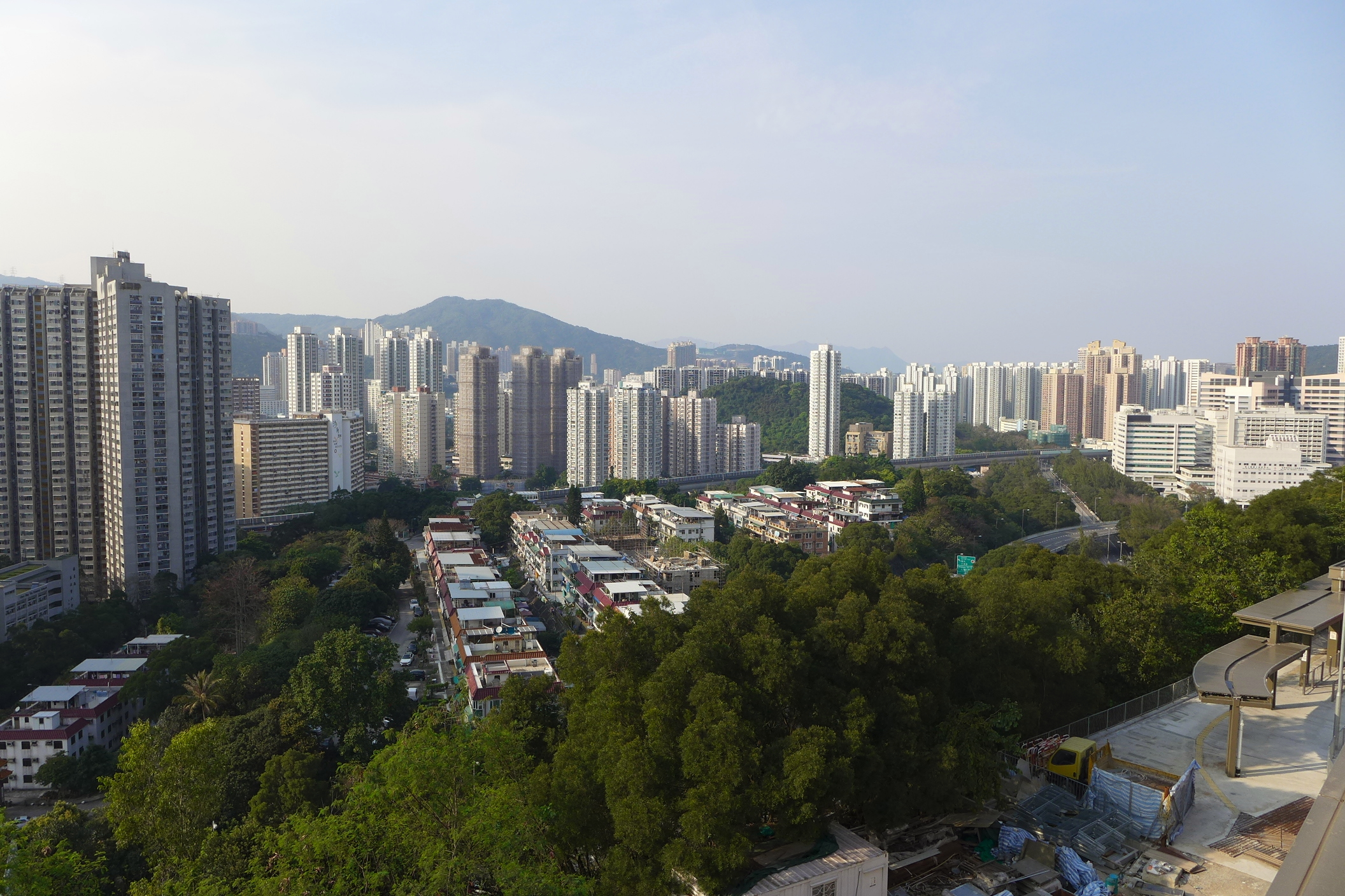 Sha Tin Wai. Viewed from Shui Chuen O Estate